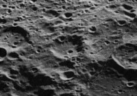 Oblique view of Zhang Yuzhe (center), on the far side of the moon, facing west.